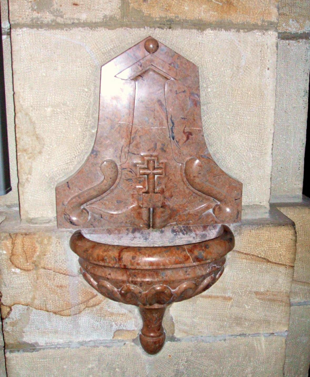 Pila de agua bendita en la Iglesia parroquial de Nuestra Señora de la Asunción, Alsasua (Navarra, España)